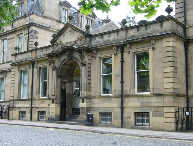 Old George Watson's Ladies College, 7 George Square Melville House, built in 1871 on the site of Admiral Duncan's house, was the home of George Watson's Ladies College until sold to Edinburgh University in 1974. The site of the Boys' College had been sold in the 19thC to accommodate the new Royal Infirmary in Lauriston Place and a new College built on the playing fields of Merchiston Castle School in Colinton Road. With the sale of their building the girls joined the boys, turning the Colinton Road building into a co-educational school.